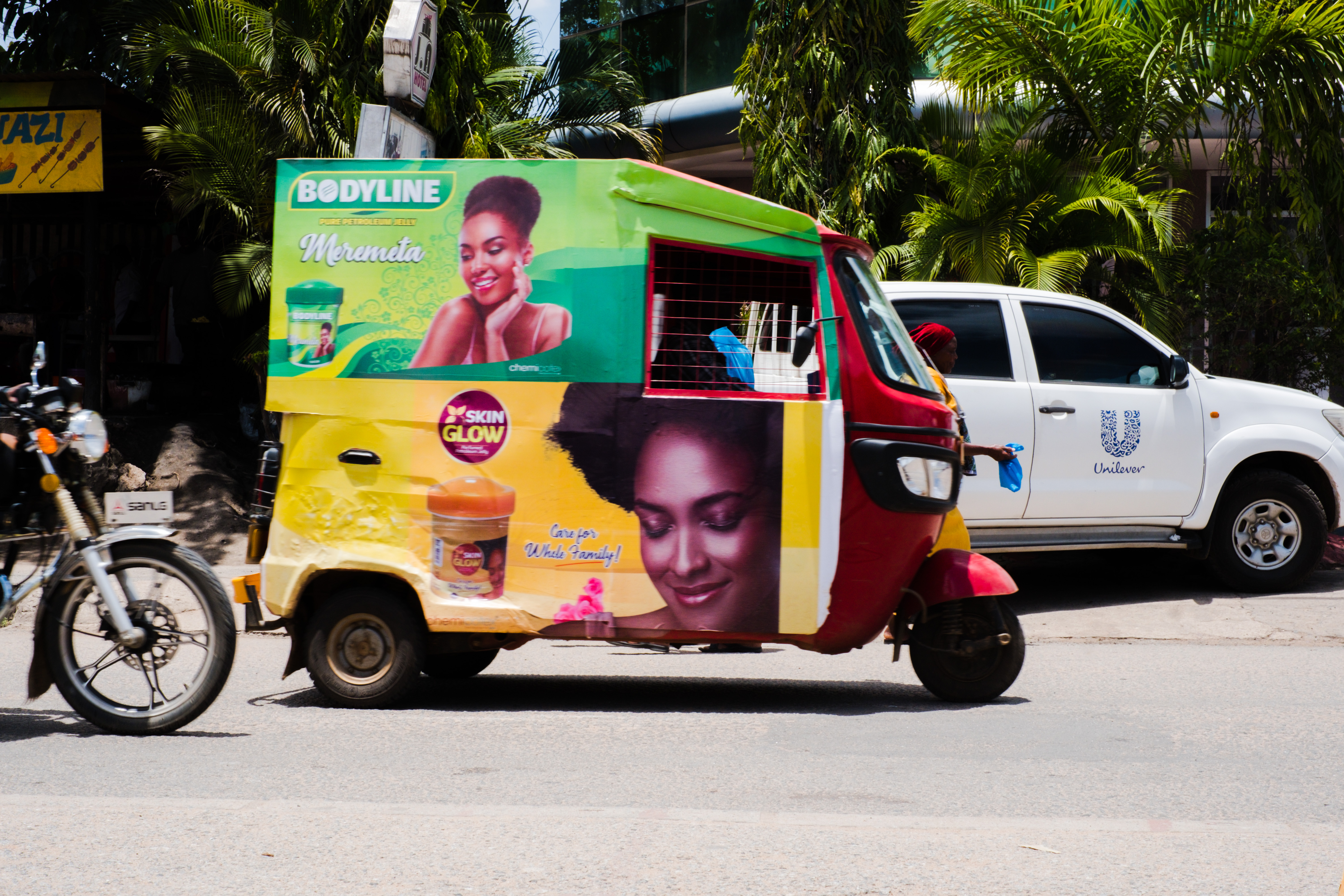 Mini-transport is vital to supply products in the city. "bajaji" are used to carry passengers and products from one place to another. This is an image with the theme "Africa on the Move or Transport" from: Tanzania